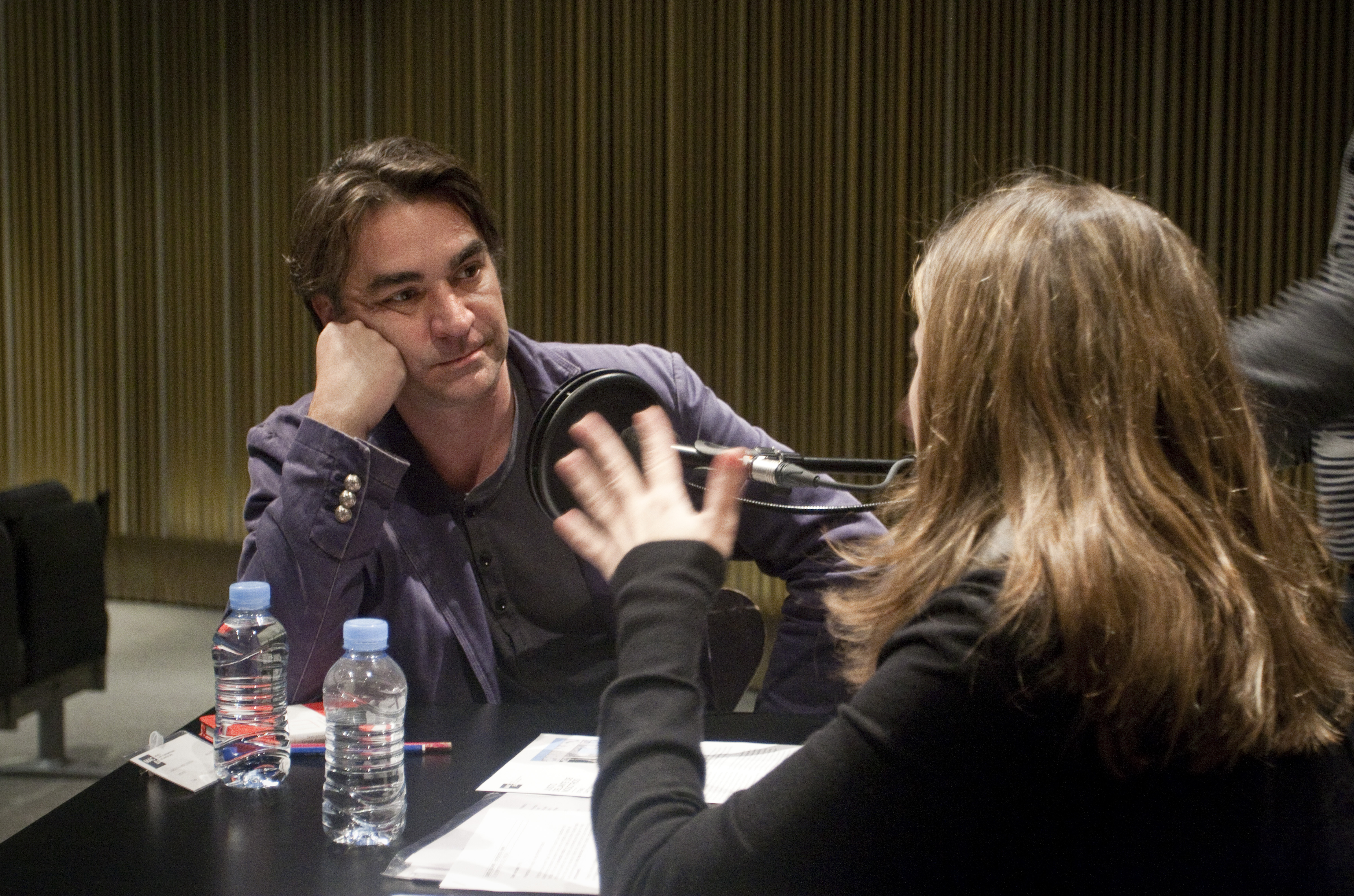 rwm.macba.cat/ca/especials Gemma Planell / MACBA, 2014